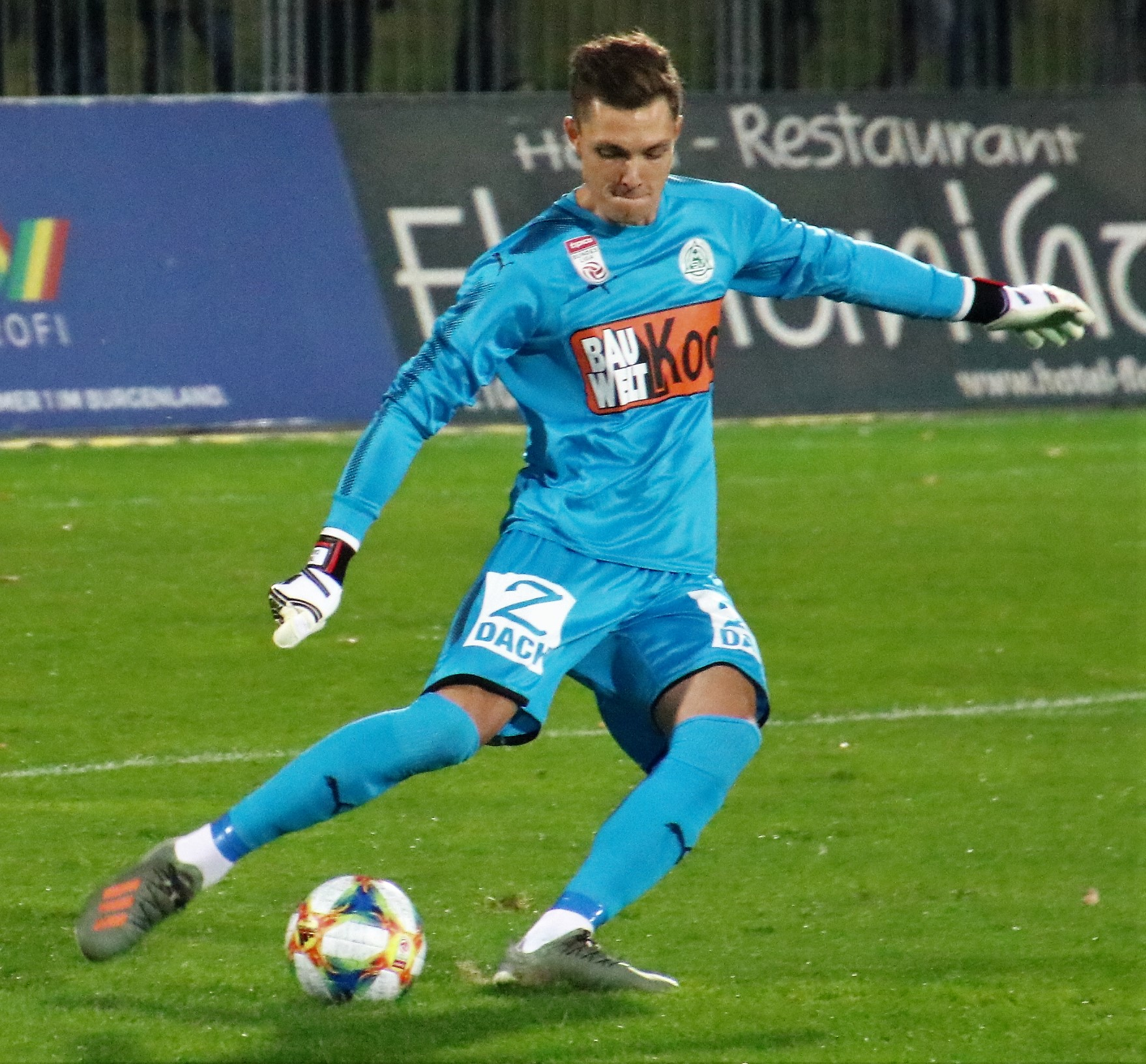 league match 13th round